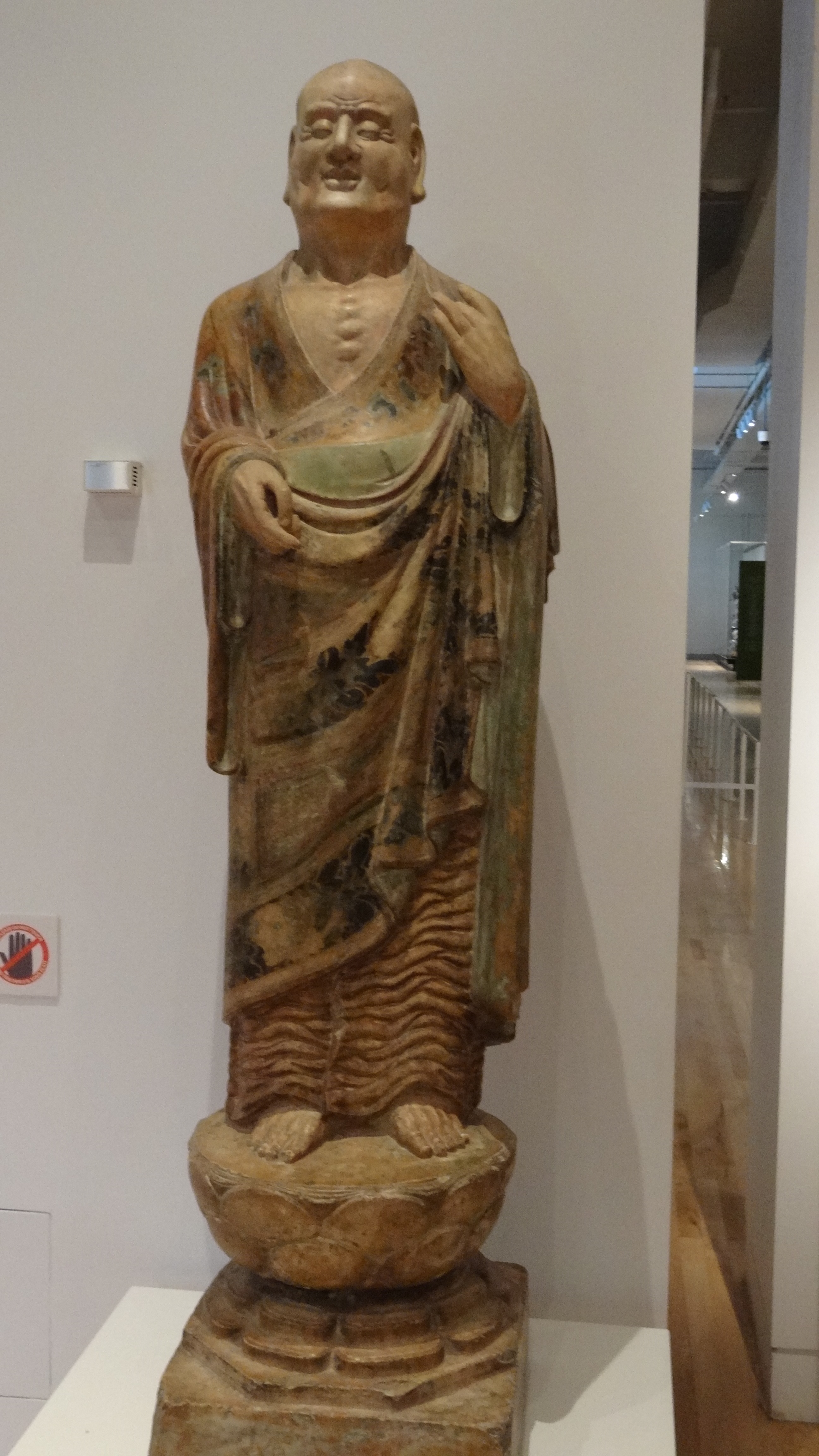 marble statue